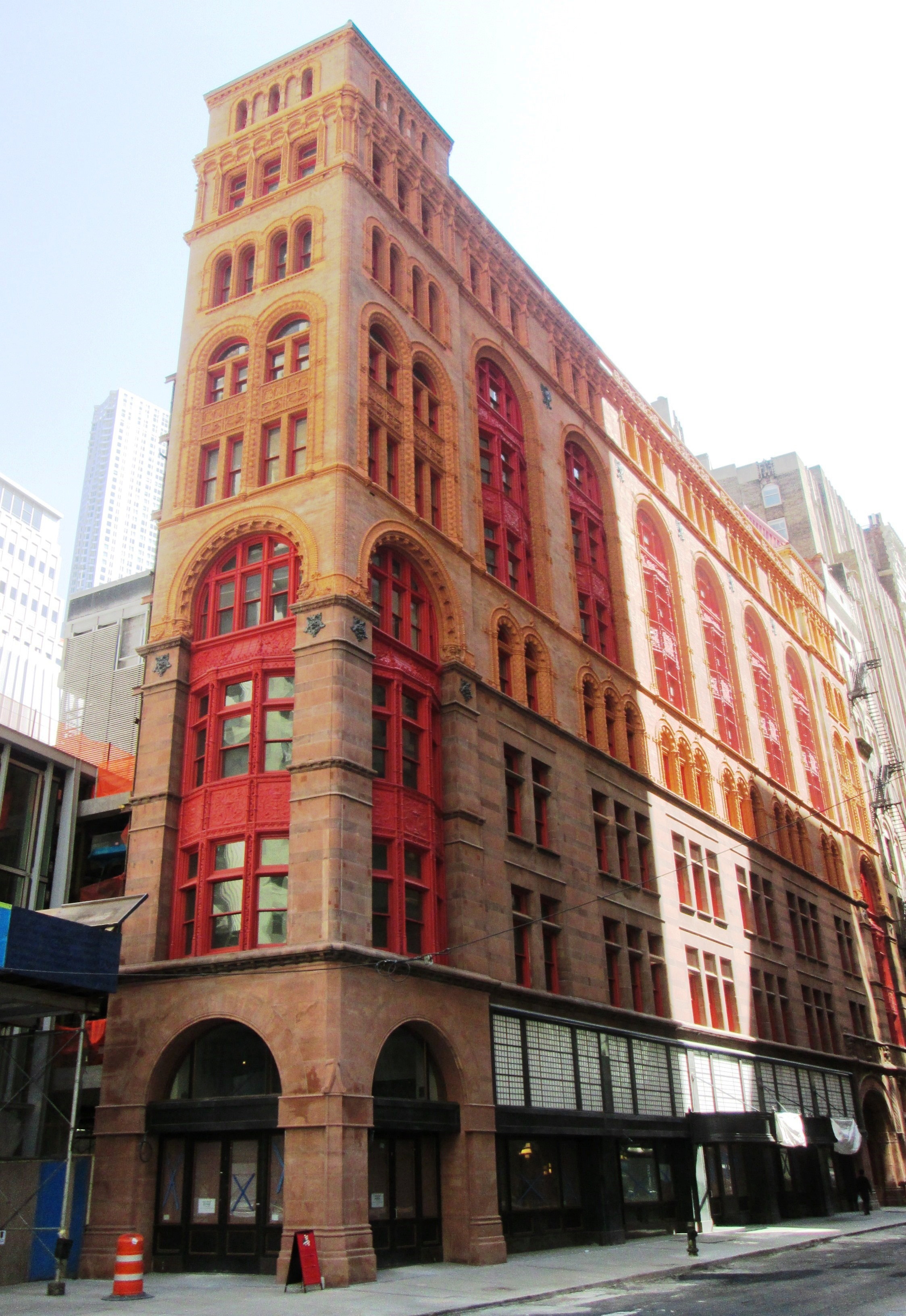 The Corbin Building is a historic former office building located at 13 John Street at the corner of Broadway – where it is numbered as 192 – in the Financial District of Manhattan, New York City. It was built in 1888-89 and was designed by Francis H. Kimball in the Romanesque Revival style. The building was named for Austin Corbin, a president of the Long Island Rail Road. It is currently being rehabilitated by the MTA as part of the Fulton Center project. The ground and basement levels of the building will be incorporated into the Transit Center and serve as an entrance to the subway station below. The exterior and interior of the building will be restored to resemble its original 19th century construction as closely as possible.